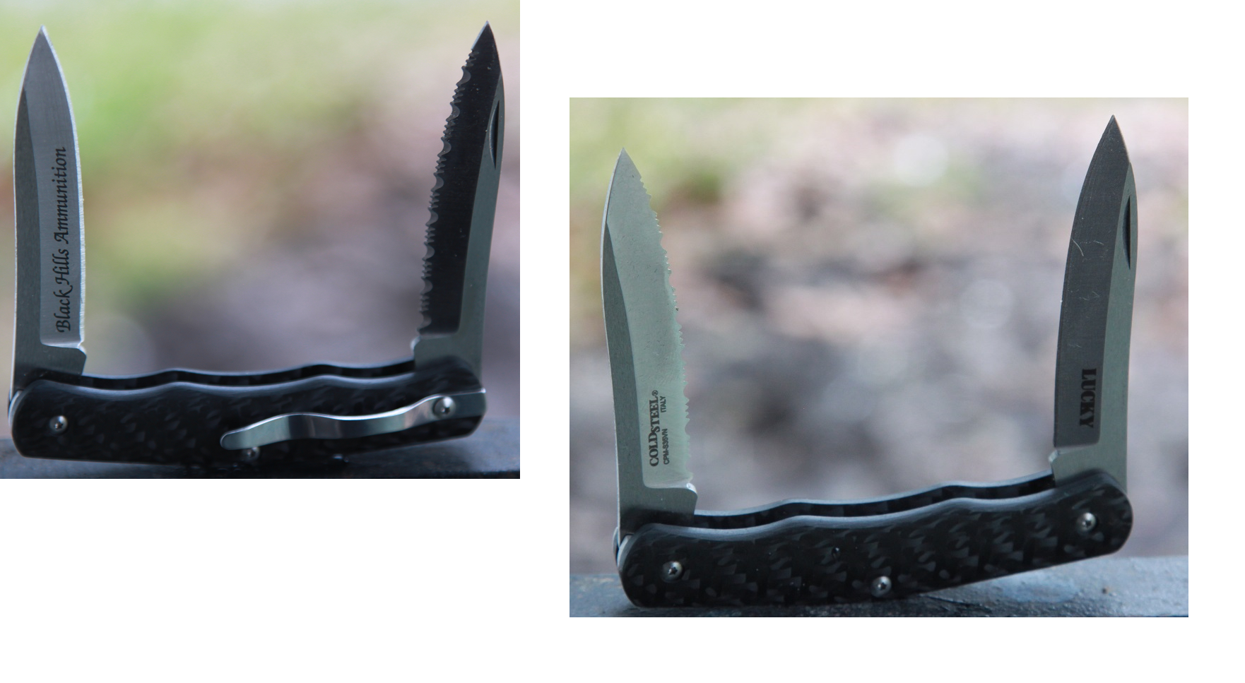 Cold Steel "Lucky" Gentleman's pen knife made in Italy of S35VN Steel, with 2 5/8" blades. Knife courtesy of Mike Cumpston.